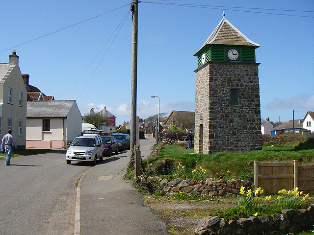 Clock Tower. The clock tower in Marloes village.